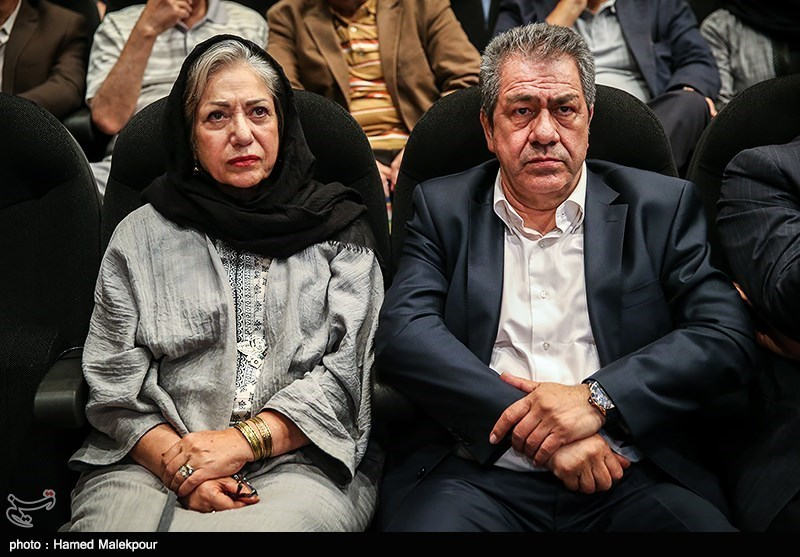 Rakhshan Bani-E'temad & Jahangir Kosari